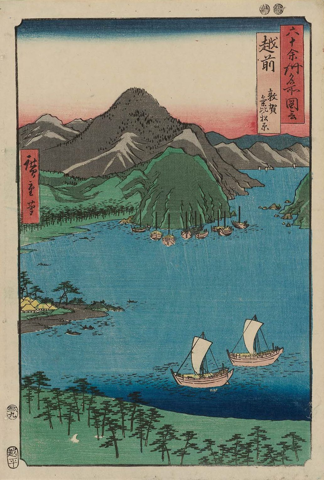 Part of the series Famous Places in the Sixty-odd Provinces, No. 31 (Hokurikudō group)